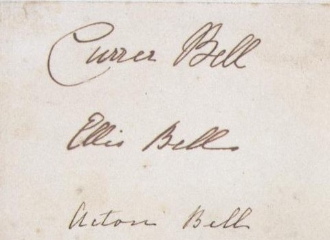 Brontë sisters' signatures as Currer, Ellis and Acton Bell